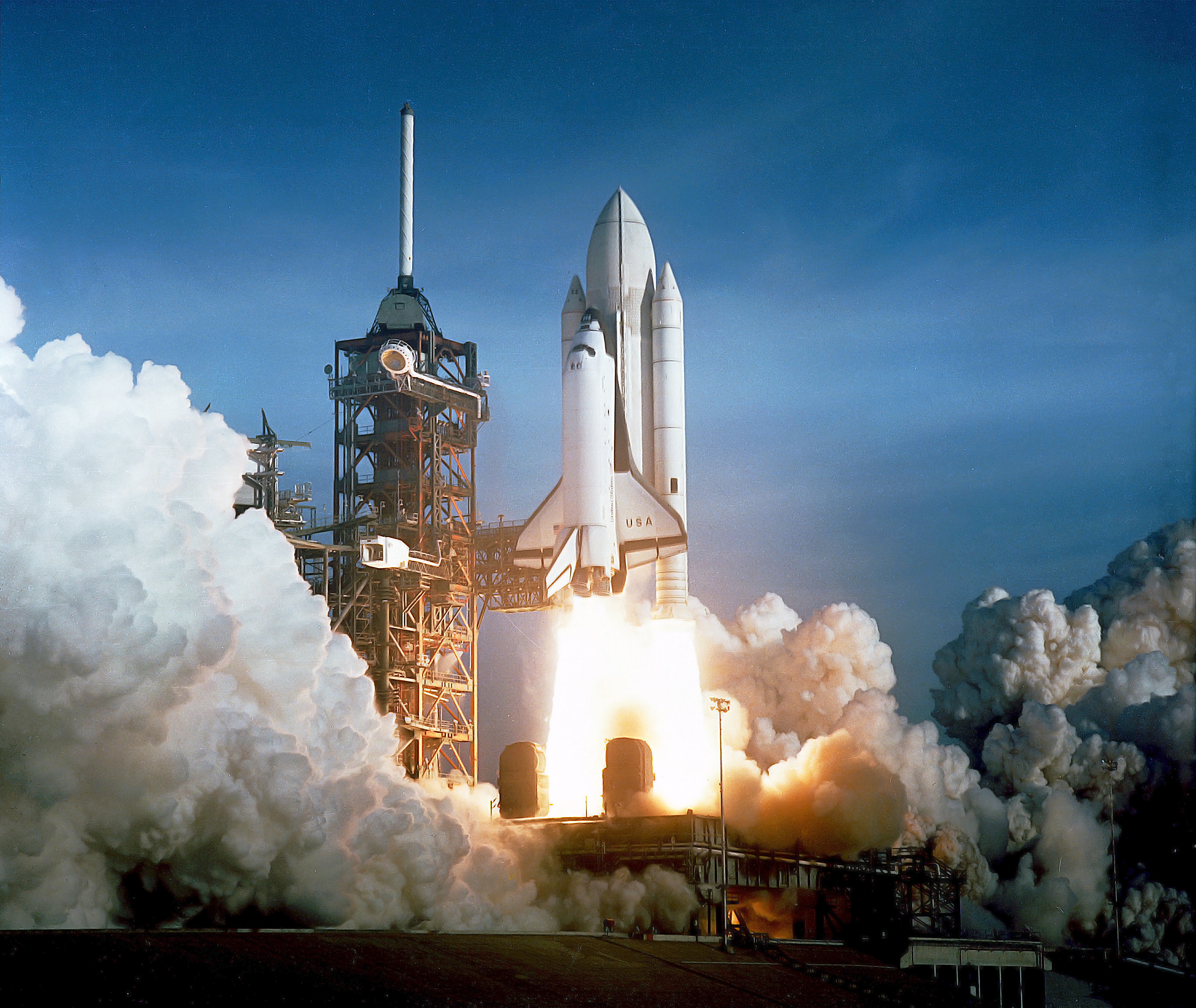 The April 12 launch at Pad 39A of STS-1, just seconds past 7 a.m., carries astronauts John Young and Robert Crippen into an Earth orbital mission scheduled to last for 54 hours, ending with unpowered landing at Edwards Air Force Base in California.